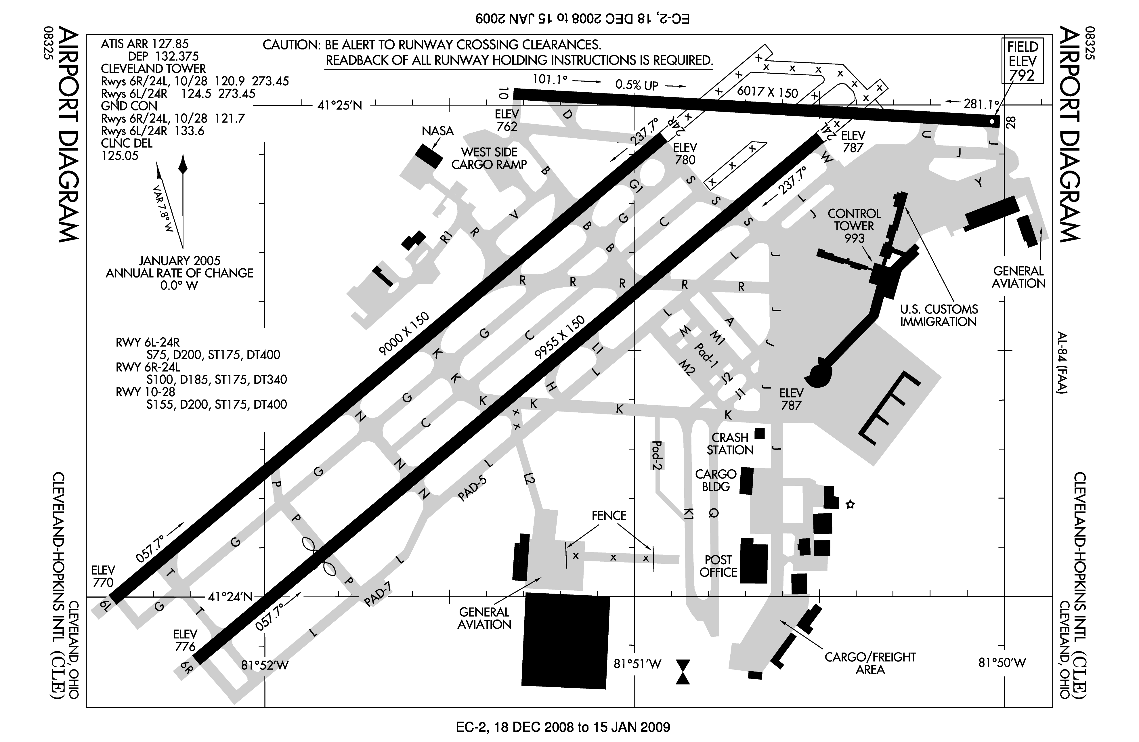 Federal Aviation Administration (FAA) diagram for Cleveland Hopkins International Airport (IATA: CLE, ICAO: KCLE, FAA: CLE) in Cleveland, Ohio, United States.